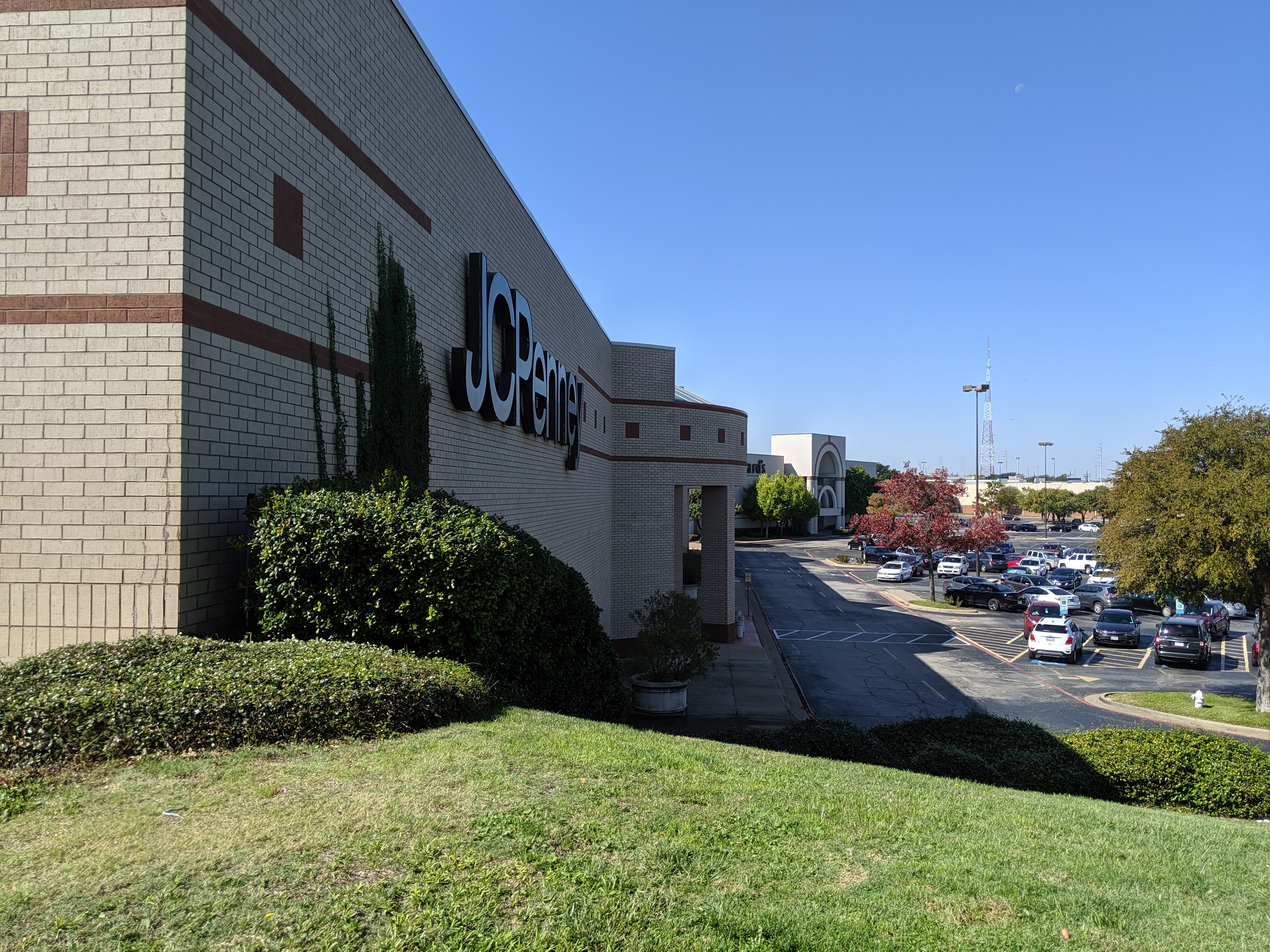 This depicts J.c penney's north facade